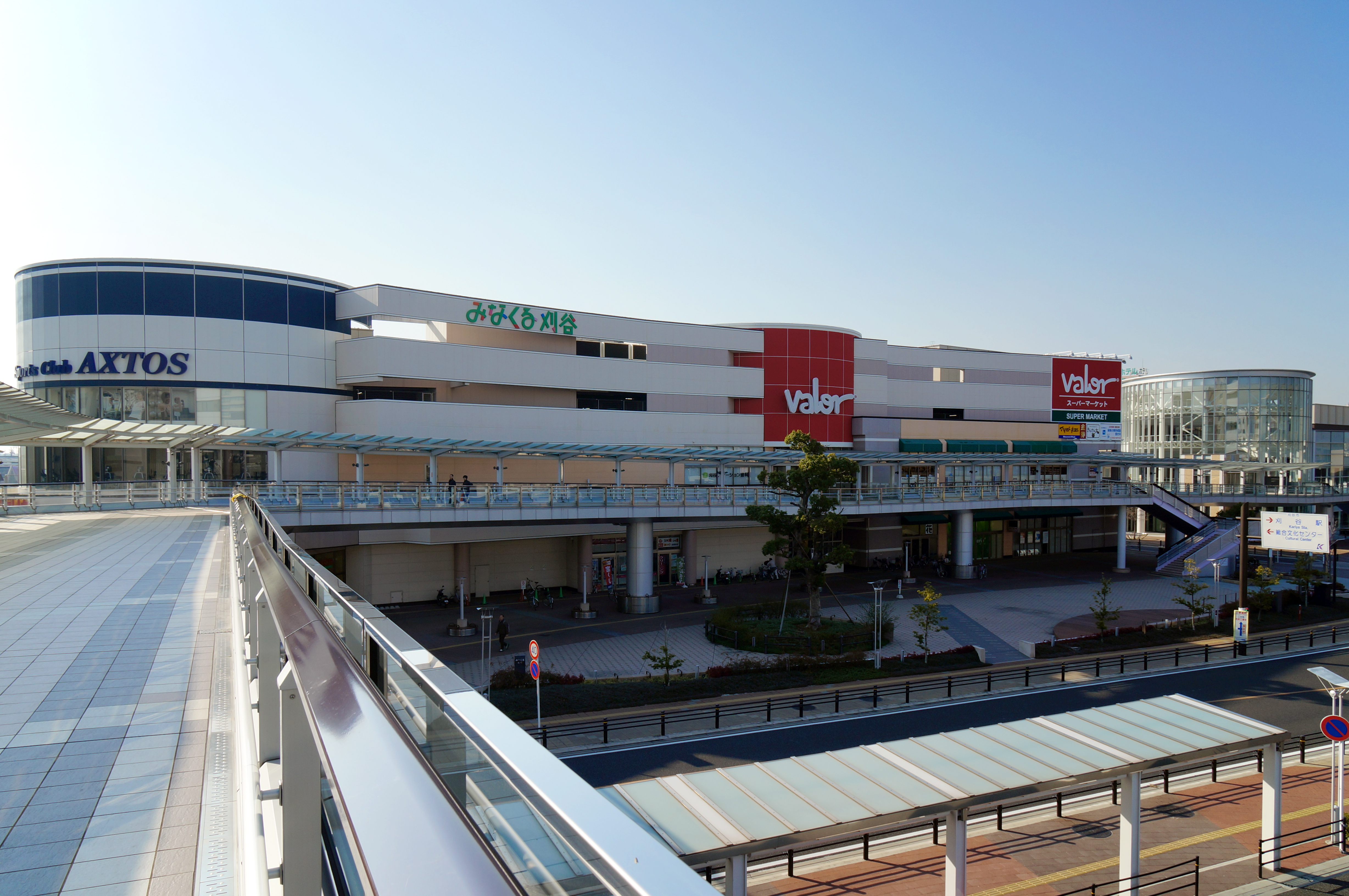 Minakuru Kariya in Kariya, Aichi prefecture, Japan.